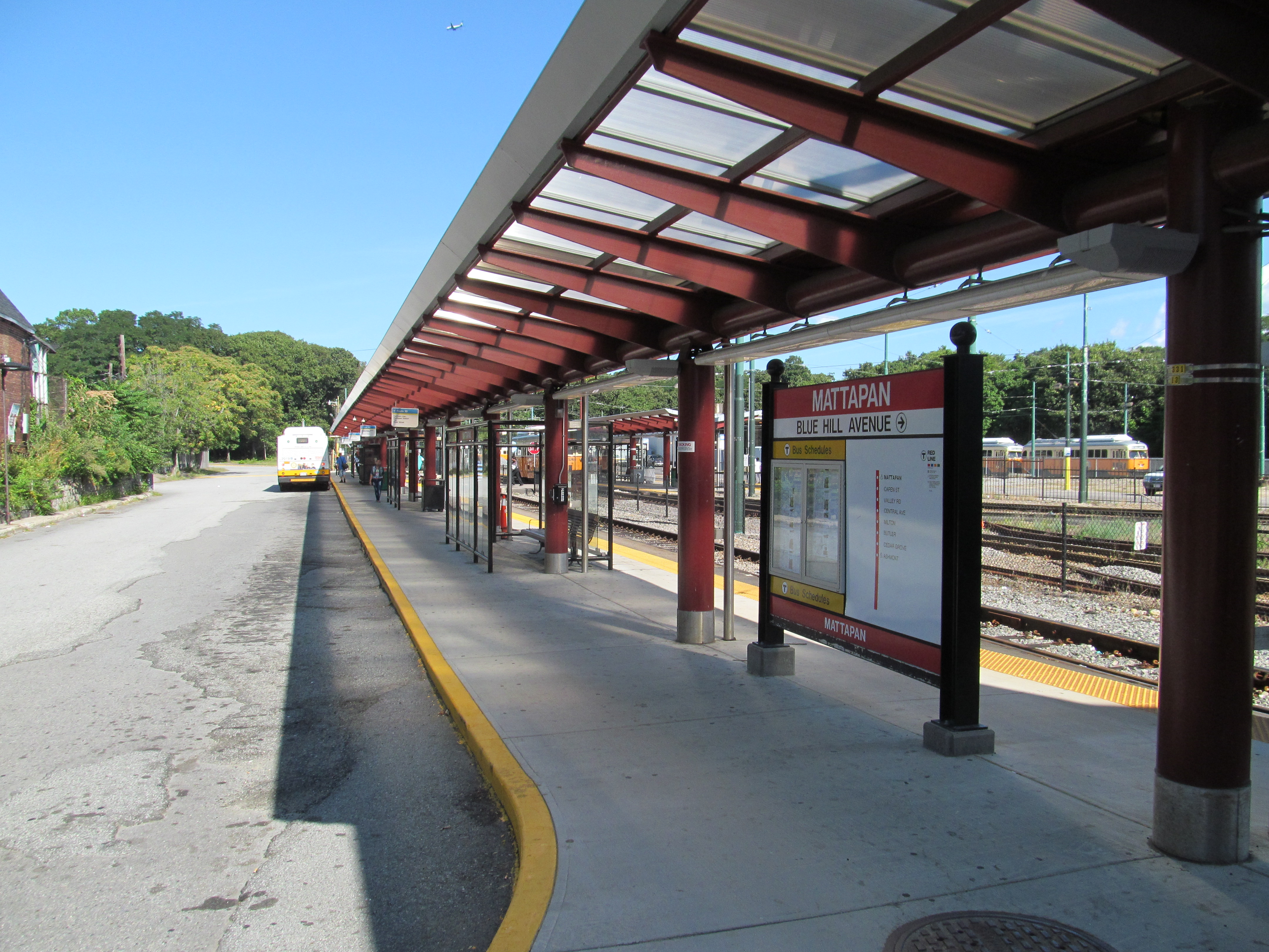 The bus loop on the north side of Mattapan station, adjacent to the High Speed Line platforms